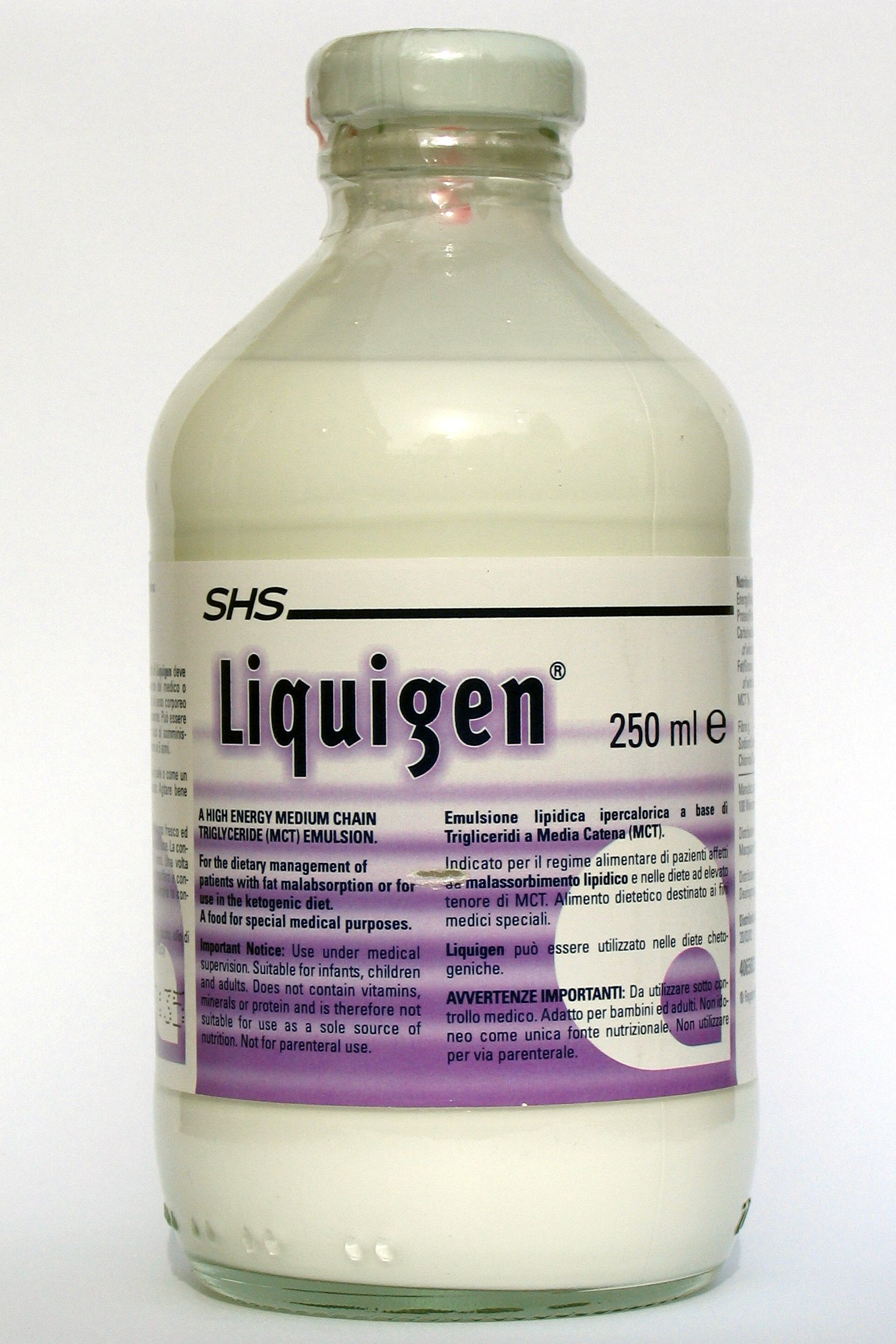 SHS Liquigen. A high energy Medium-chain triglyceride (MCT) emulsion.